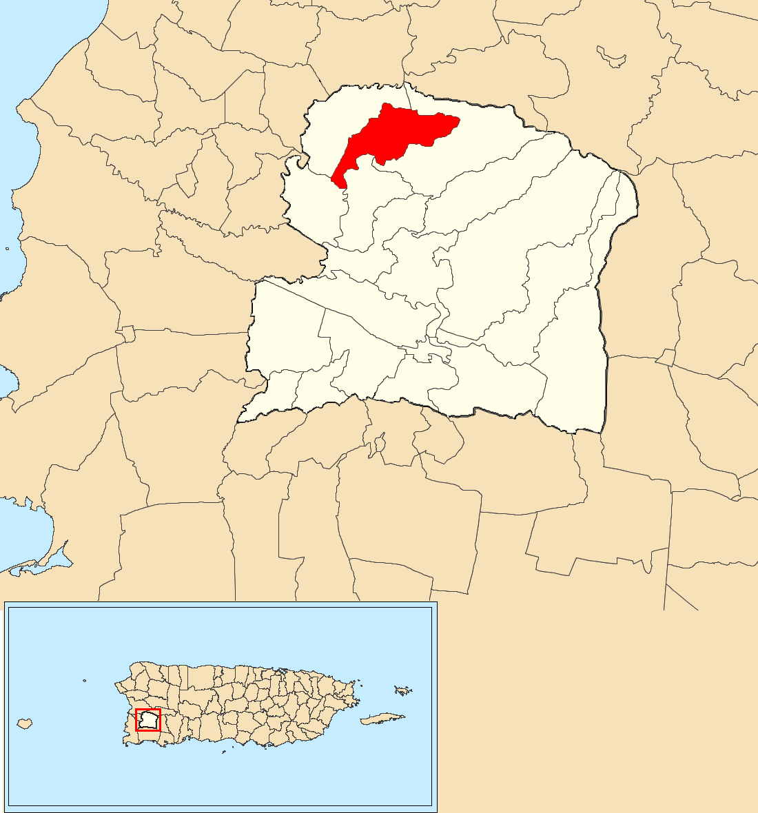 Rosario Peñón, San Germán, Puerto Rico locator map